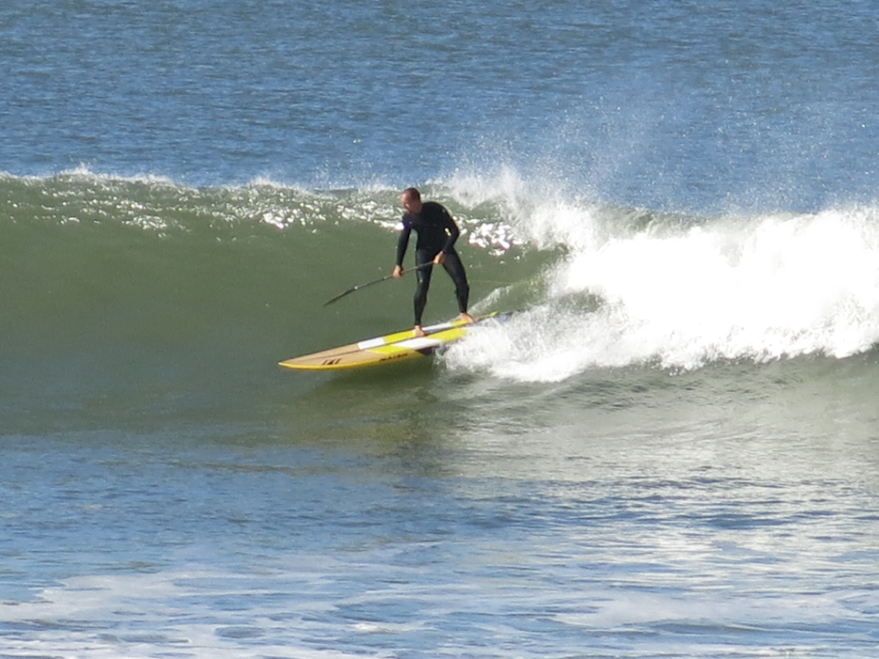 Stand up paddle surfing in Capbreton (Landes, France).